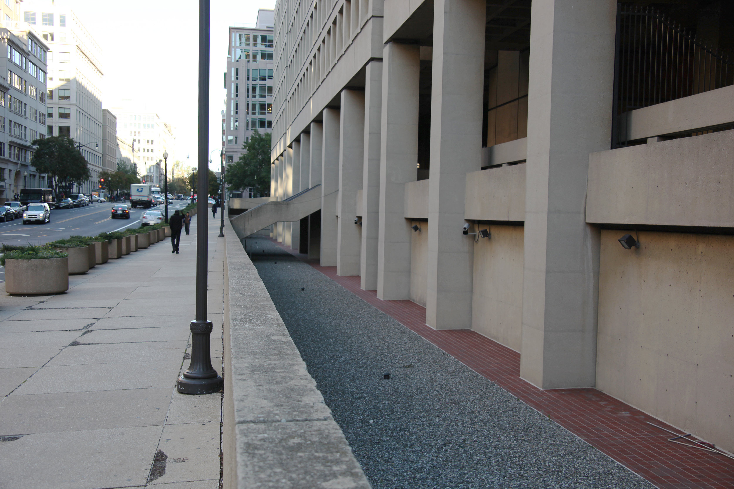 Looking east along E Street NW at the sidewalk and the dry moat along the north side of the J. Edgar Hoover Building (the headquarters of the Federal Bureau of Investigation) in Washington, D.C., in the United States. The office building, constructed in the Brutalist style, began construction in 1967 and was completed in 1975. Concerned about the violence that was common in the United States in the late 1960s, the FBI required that a deep, dry moat surround the FBI building on three sides (east, north, and west). The moat is deeper in some areas than in others.